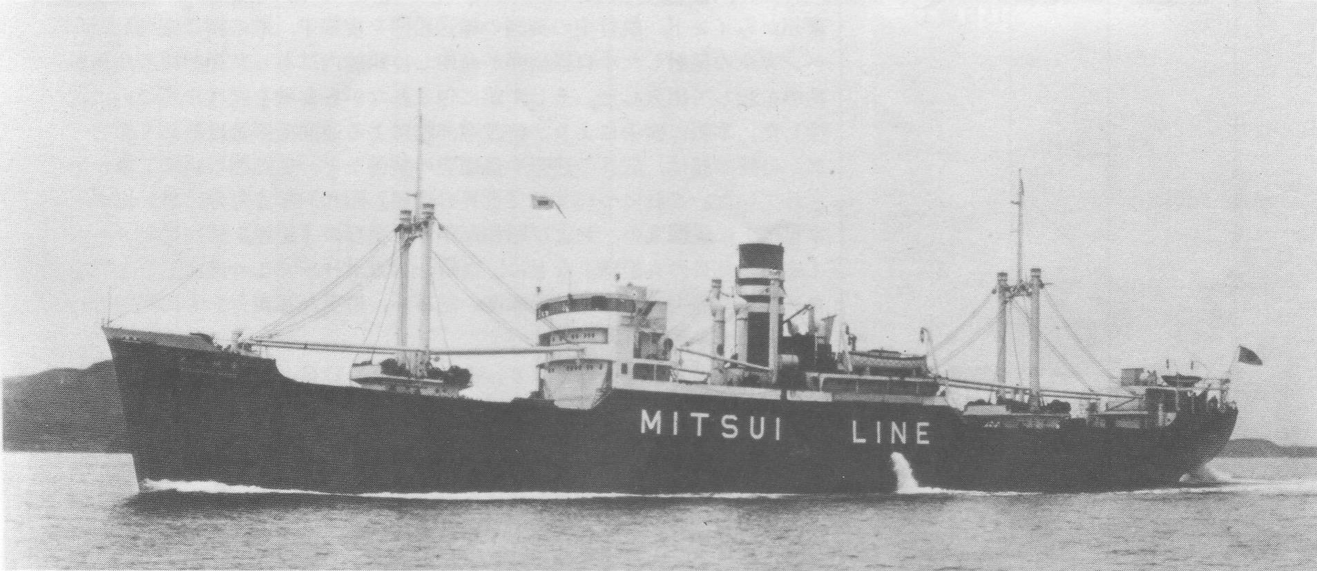 Mitsui Line "Kinjosan Maru"